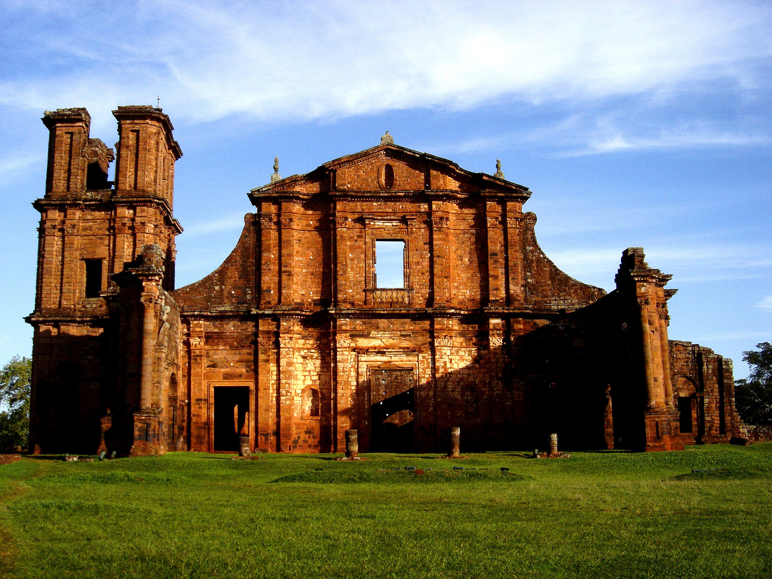 São Miguel das Missões, Rio Grande do Sul - Brazil.